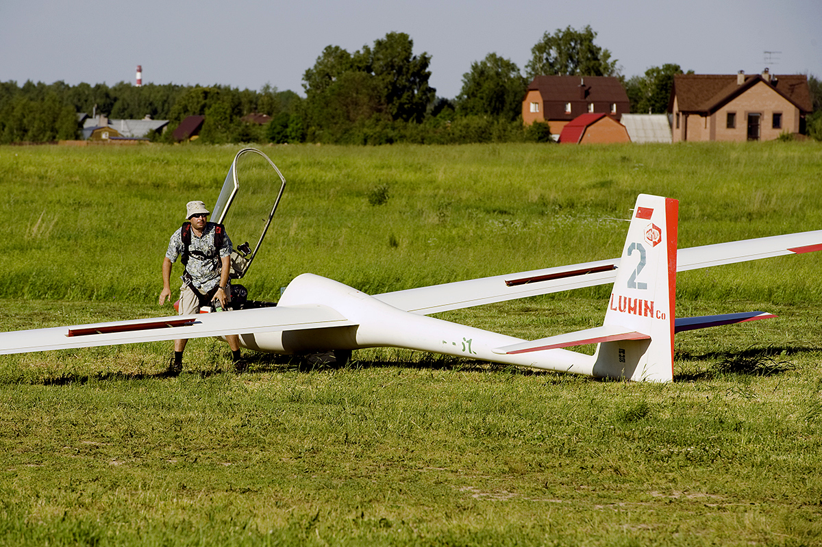 The pilot glider "Sportine Aviacija LAK-12 Lietuva" after two-hour flight